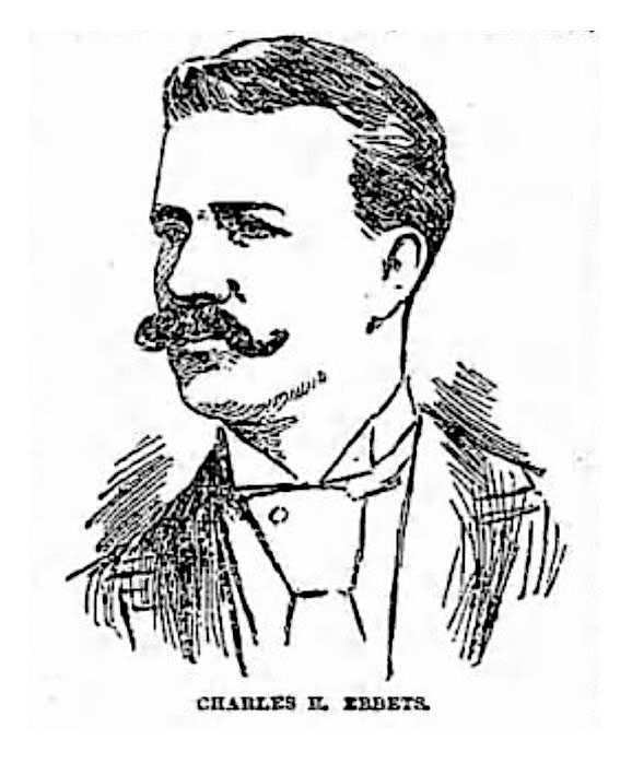 Line drawing of Charles H. Ebbets, in a Brooklyn Daily Eagle article about bowling published at the time of formation of the American Bowling Congress.